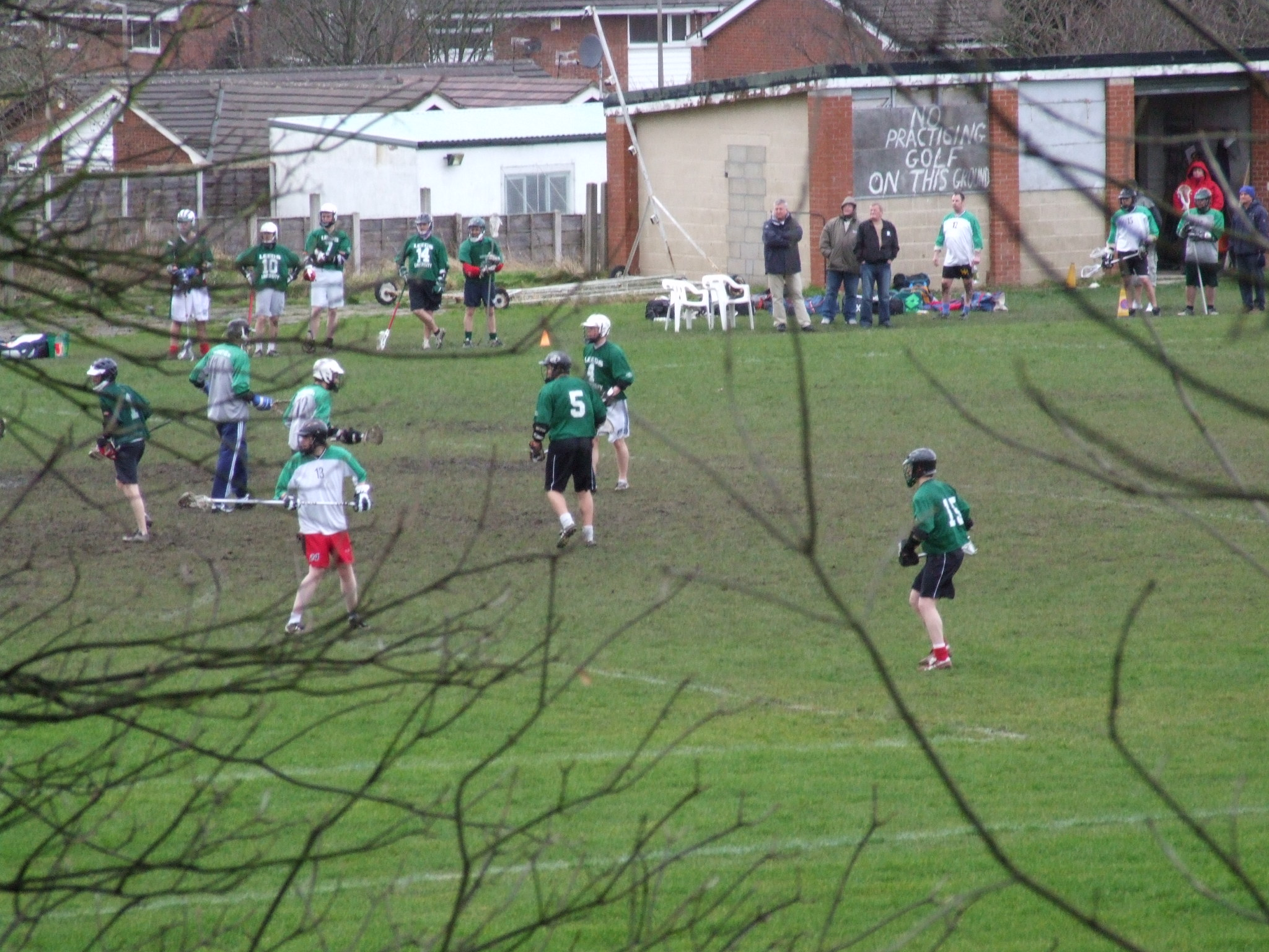 Heaton Mersey is situated on the A5145 in Stockport, north of the River Mersey, above the flood plain. Mens Lacrosse. - Google Maps - Google Earth